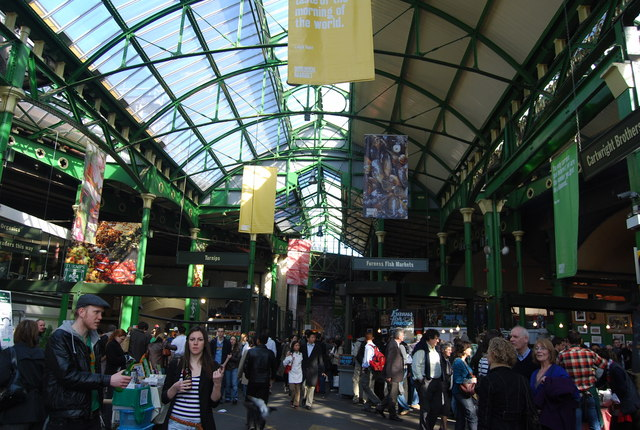 Inside Borough Market